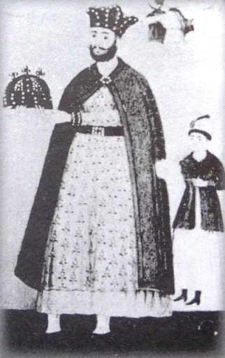 Reproduction of the fresco portrait of George VIII of Georgia from the Svetitskhoveli cathedral